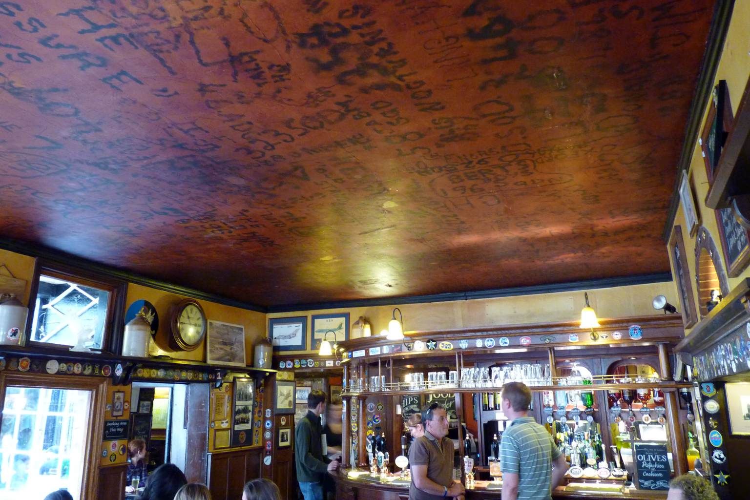 The Eagle pub in Cambridge with graffiti of World War II airmen covering the ceiling.